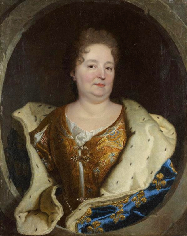 Portrait of Elisabeth Charlotte, Duchess of Orléans (1652-1722)